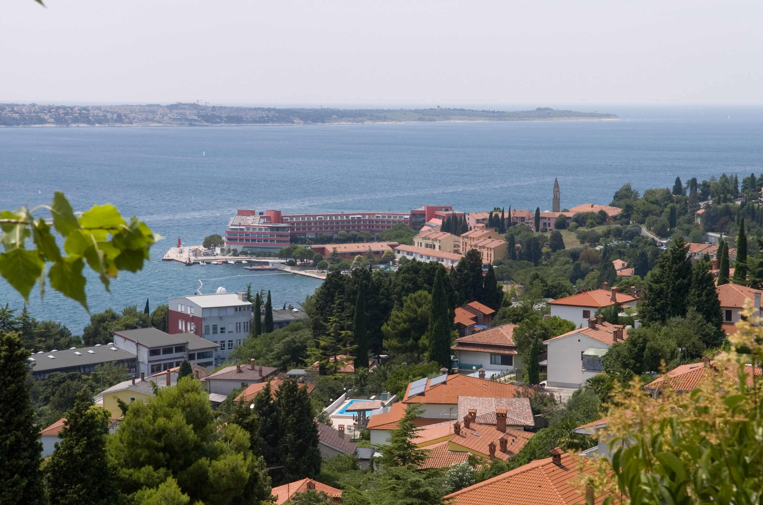 Portoroz, Slovenia Location: Portoroz.